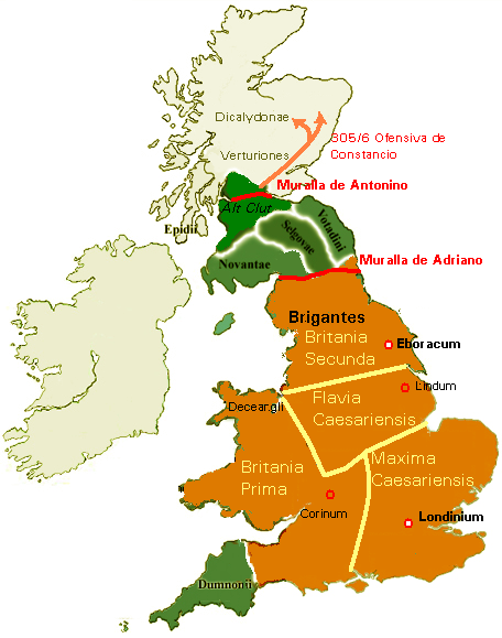 An unsourced hypothesis for the Roman provinces after their reorganization under Diocletian c. 296. Lacks Valentia and should only be used with heavy caveating about hypothetical nature of this reconstruction.